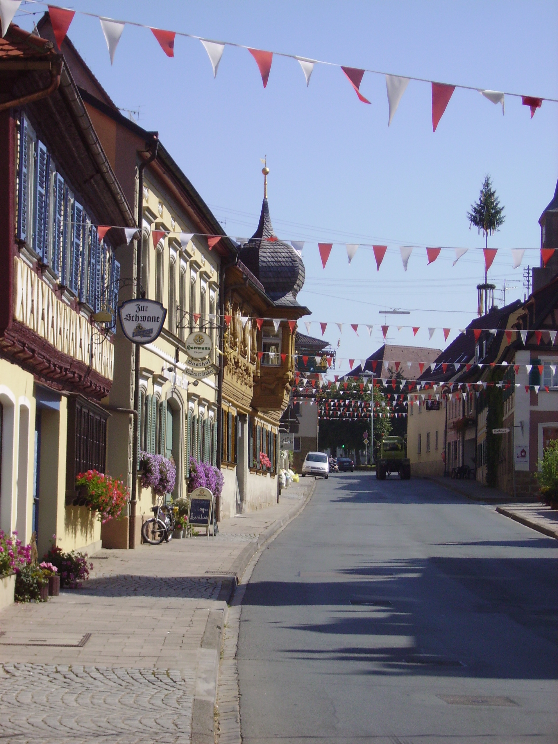 Description: Scheßlitz near Bamberg (Franconia) Source: own photography Date: August 2005 Author: --Immanuel Giel 07:45, 14 September 2005 (UTC) Other versions: none